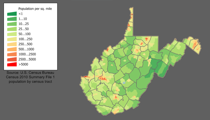 West Virginia population density map from Census 2010. See the data lineage for the process description.